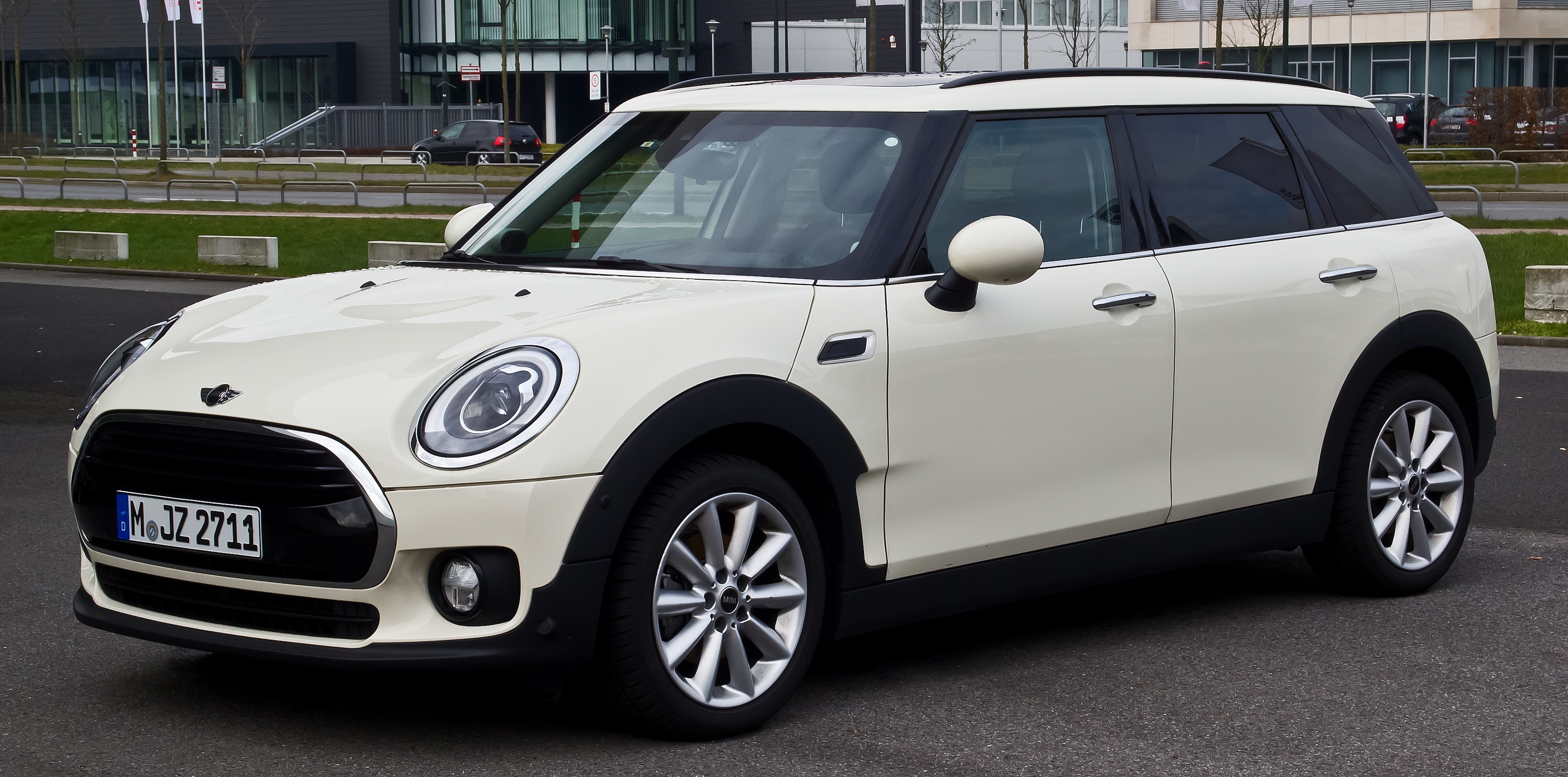 Mini Cooper D Clubman (F54)